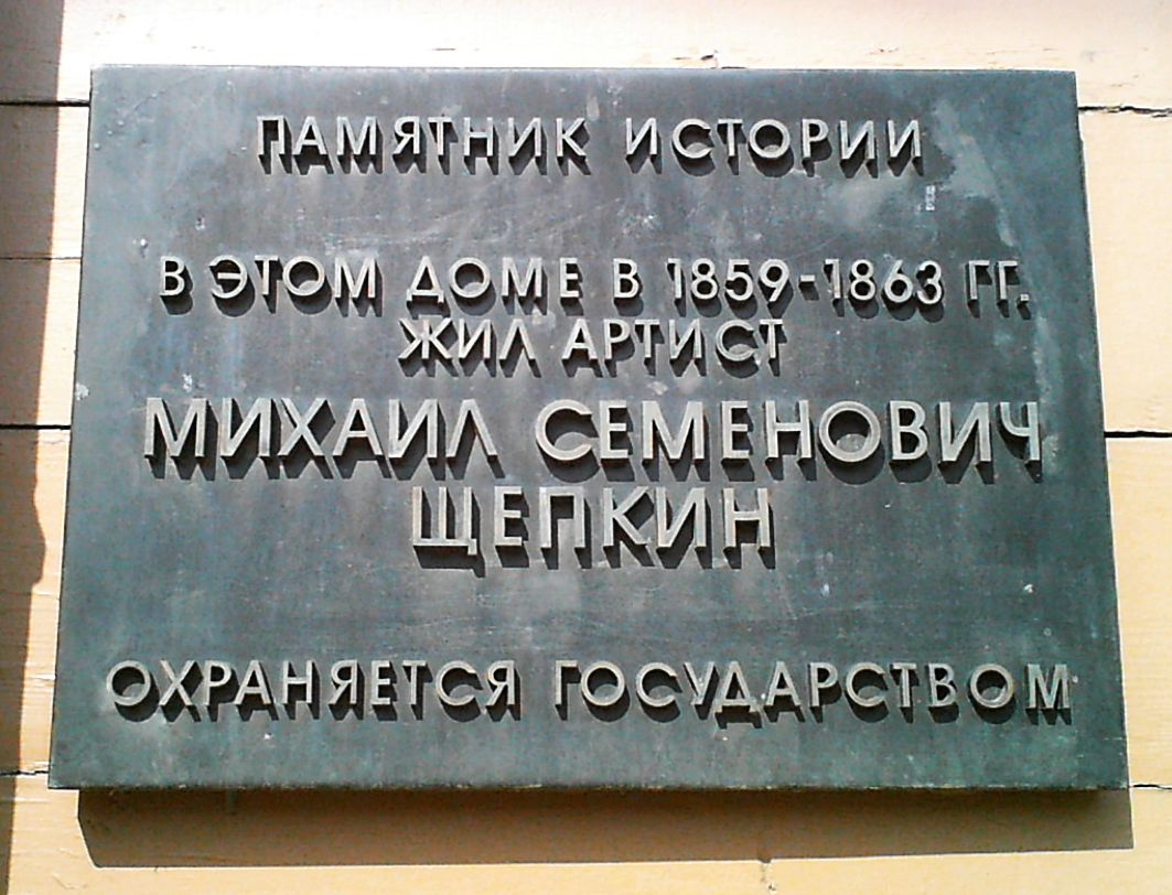 Commemorative Plaque at the house in which lived in 1859-1863 a famous Russian actor Mikhail Shchepkin. Moscow, Shchepkina street, 47. Now there is the museum.